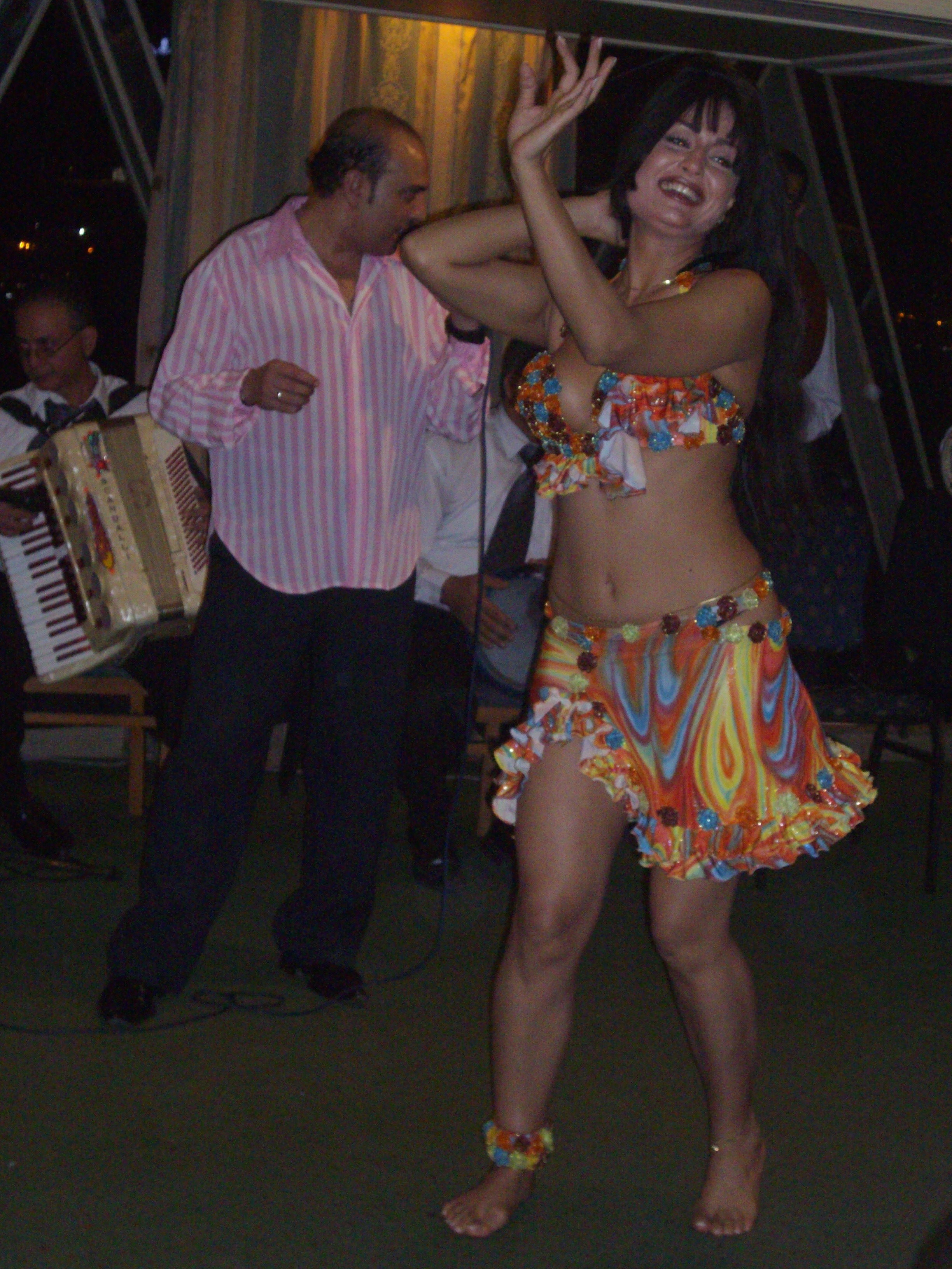 "RAQS SHARQI" better known as "BELLY DANCING" being performed on Nile river Cruise ship,"TOPAZ".